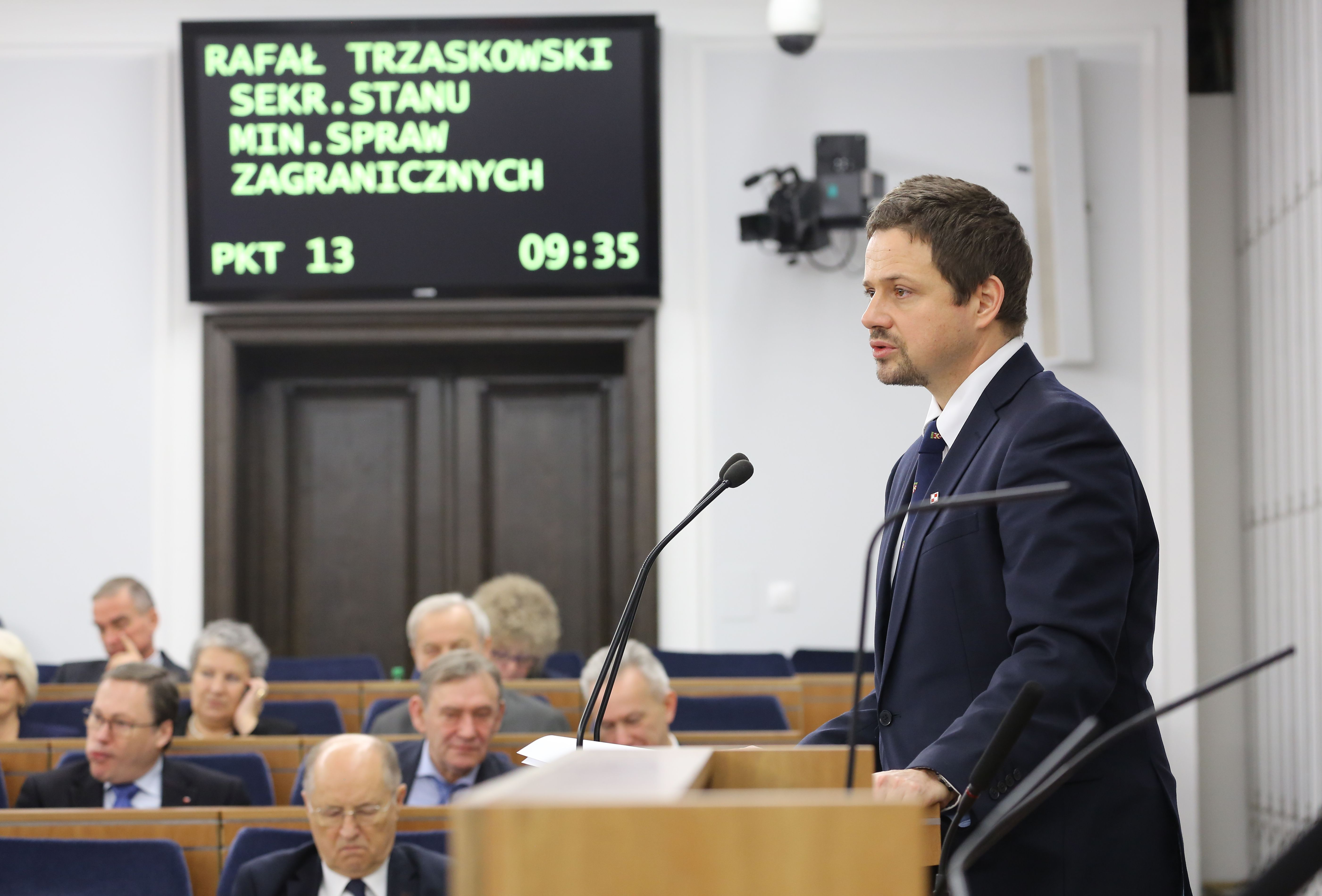 Secretary of state at the Ministry for Foreign Affairs Rafał Trzaskowski during 66th sitting of the Polish Senate